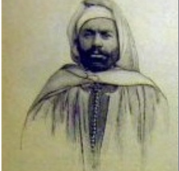 Photo of Arezki El Bachir, Arezki Bachir was born 'about 1857' in the village of Ait-Bouhouni in Azazga Algeria. Arezki El Bashir was a sort of Algerian Robin Hood who took money from the unwelcome rich European settlers and their colonial administrators to distribute to the poor. He was captured and executed by the colonial administrators at the guillotine with his ally Azazga Abdoun.